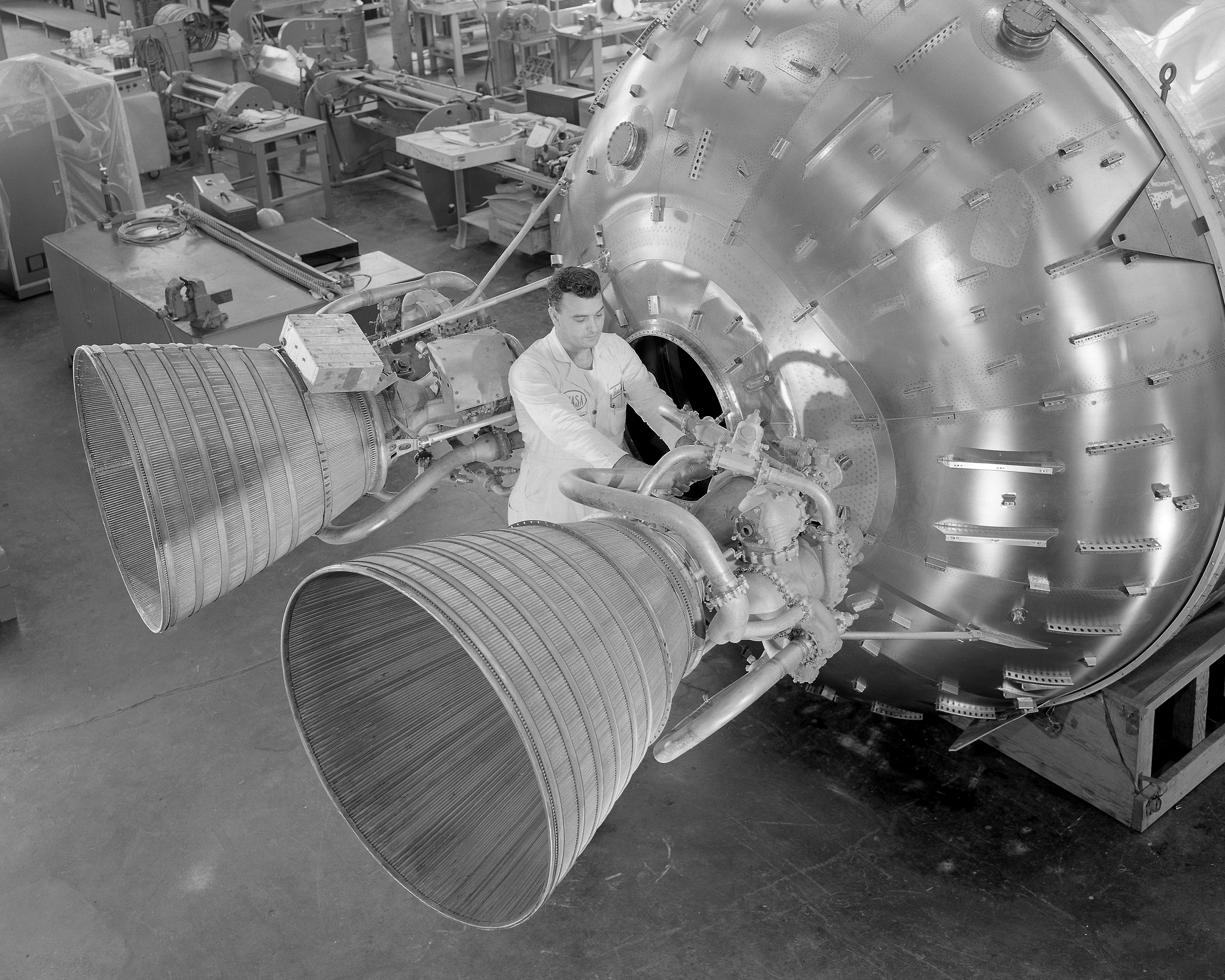 MEN WORKING ON CENTAUR STAGE ENGINE AT THE SPACE POWER CHAMBER SPC NASA Glenn Research Center (1964)